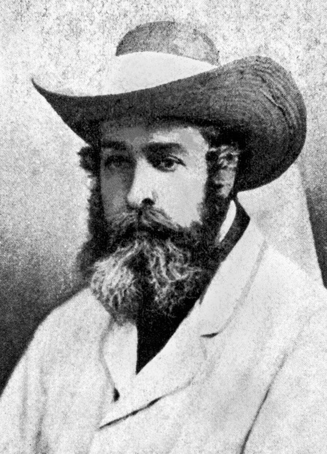 Duncan McNab, Catholic missionary to indigenous people in Queensland and Western Australia